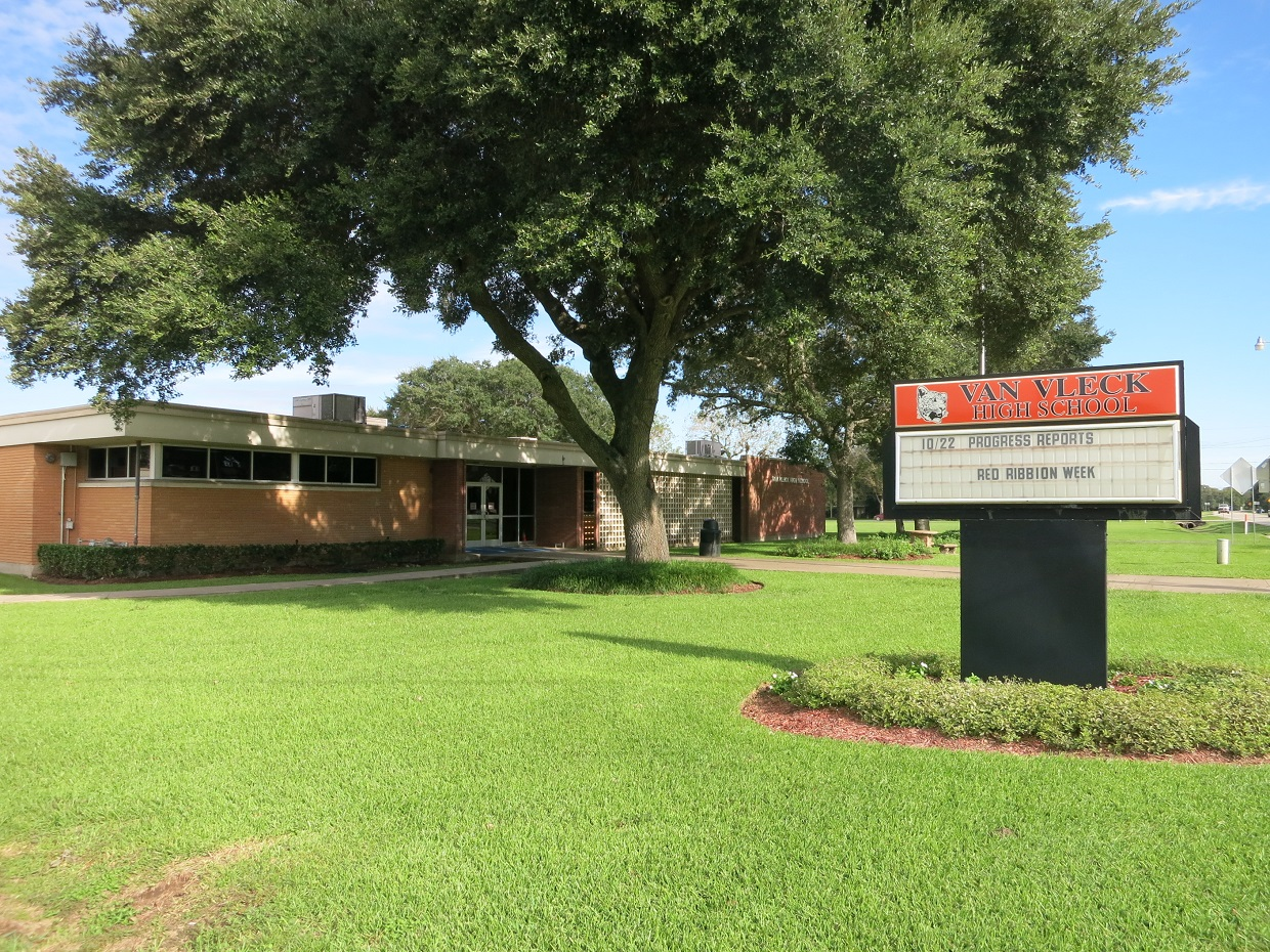 Photo shows Van Vleck High School at 133 S 4th St, Van Vleck, TX 77482. It is part of the Van Vleck Independent School District. View is toward the southeast.